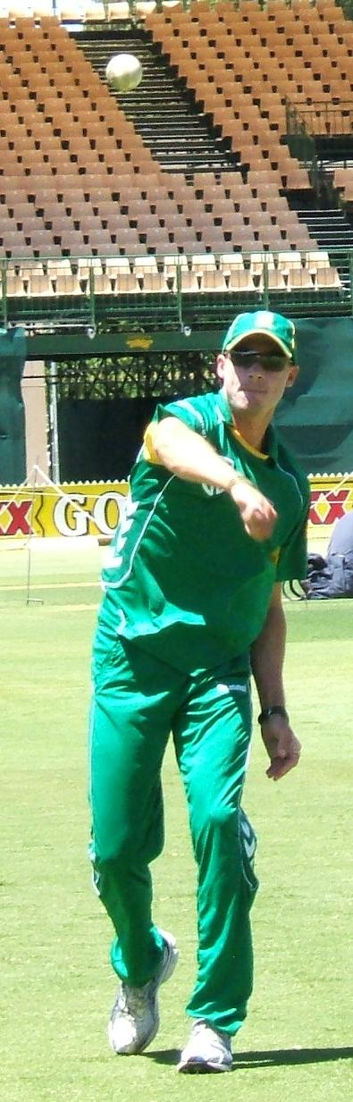 Dale Steyn at a training session at the Adelaide Oval